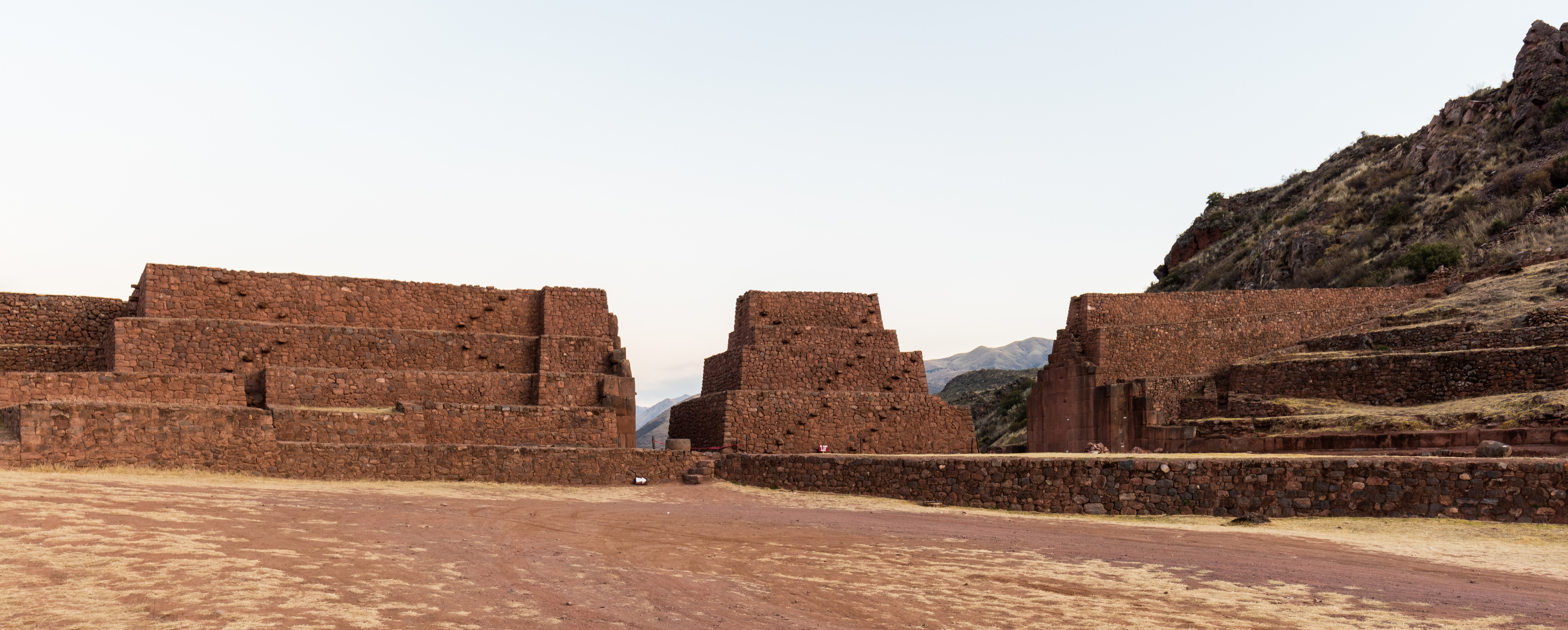 Rumicolca, Cuzco, Peru